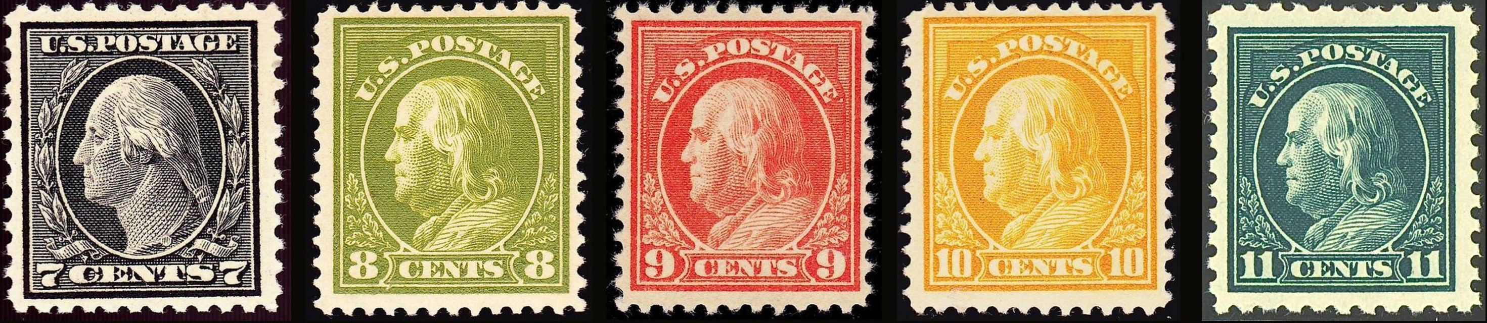 US Postage stamps Washington Franklins, (6)